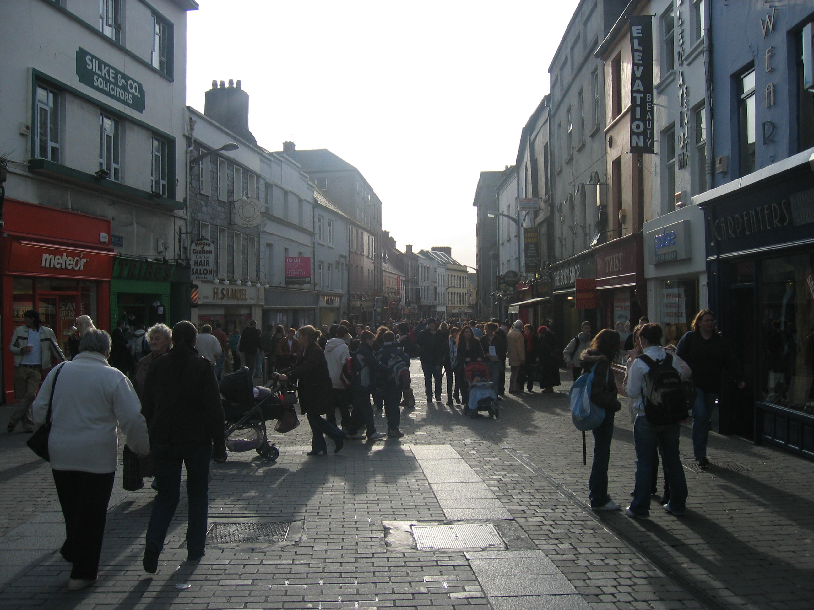 Taken by me, February 2007.